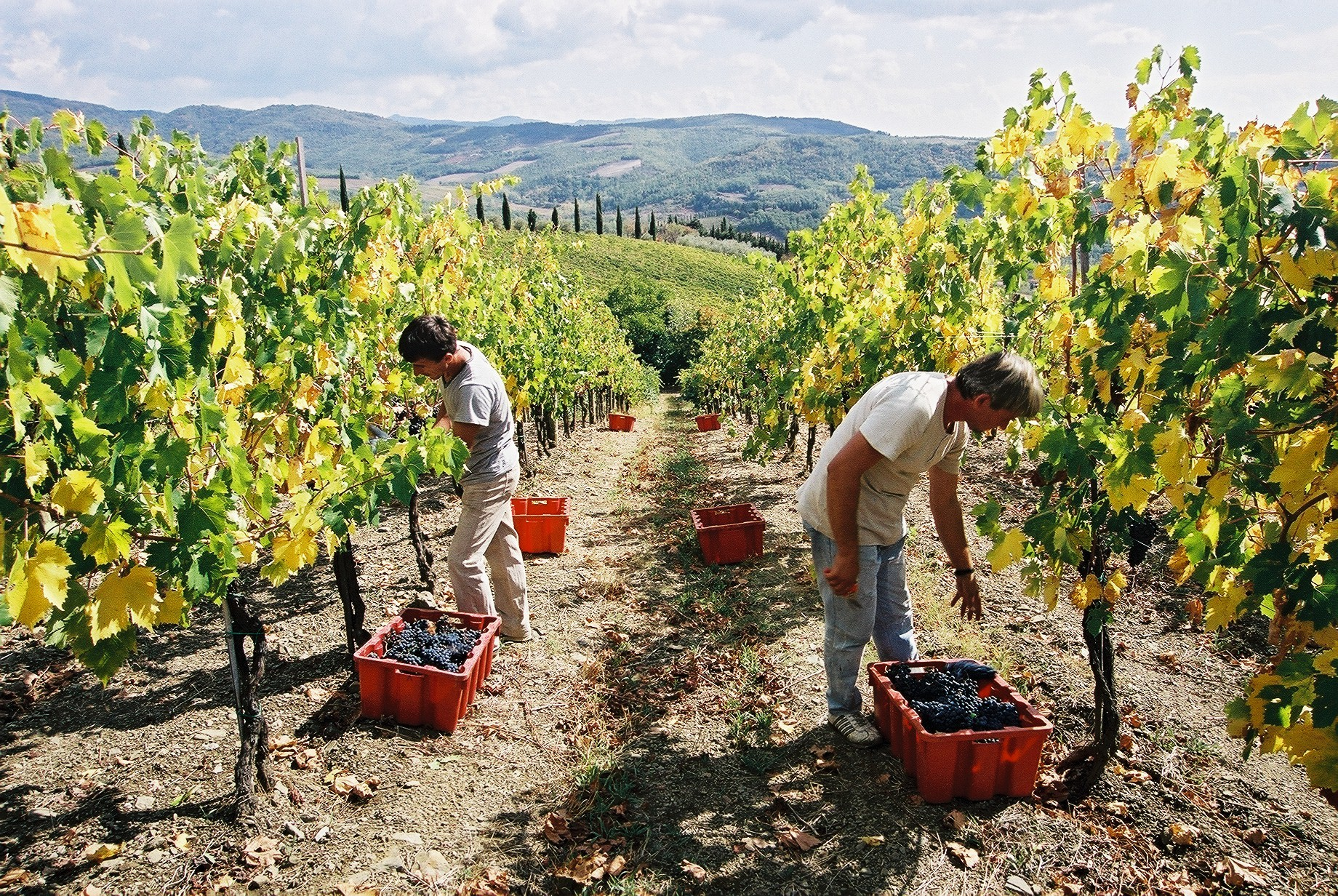 Men at work harvesting sangiovese in Volpaia